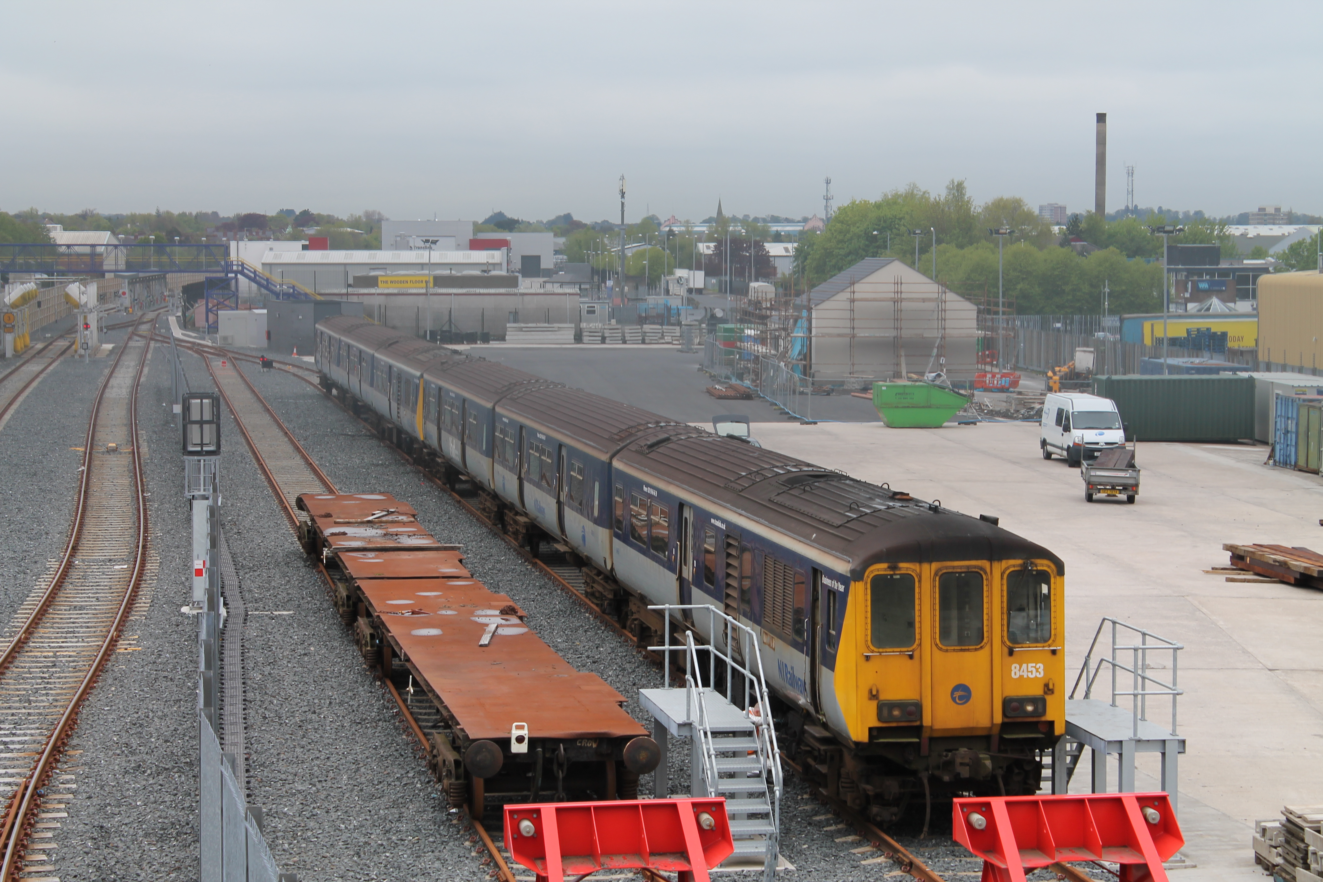 453 and 457 at Adelaide. They were cut up the following day.